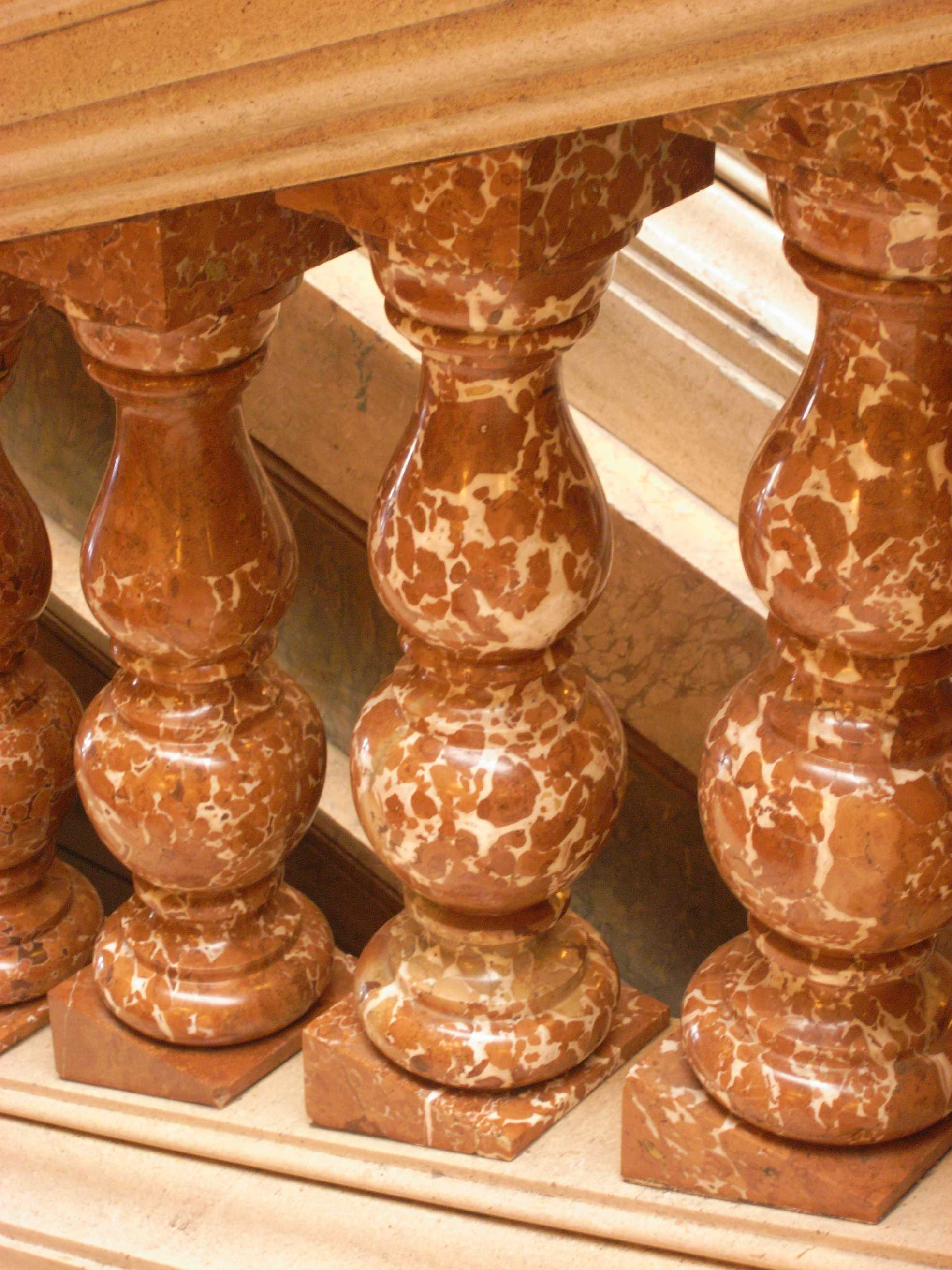 baluster in National Museum of Prague (Rotscheck marble from Adnet/Austria)